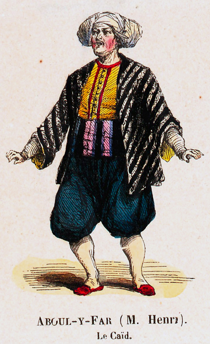 Costume design for the role of Aboul-y-Far in Ambroise Thomas's comic opera Le caïd, as performed by M[onsieur] Henri (Henry Deshaynes) in the premiere at the Opéra-Comique on 3 January 1849